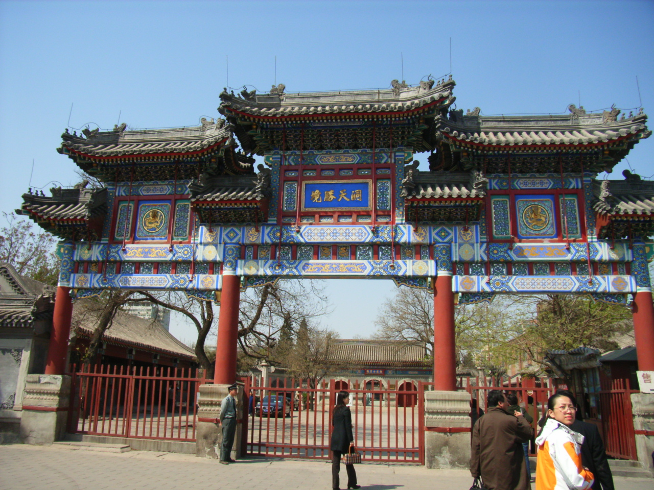 The White Cloud Temple gate — in Beijing.